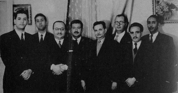 Larbi Ben M'Hidi, Mohamed Boudiaf, Hocine Aït-Ahmed, Ahmed Ben Bella, Fathi Dib after a meeting on weapons transfer from the east base to the Algerians Freedom Fighters.